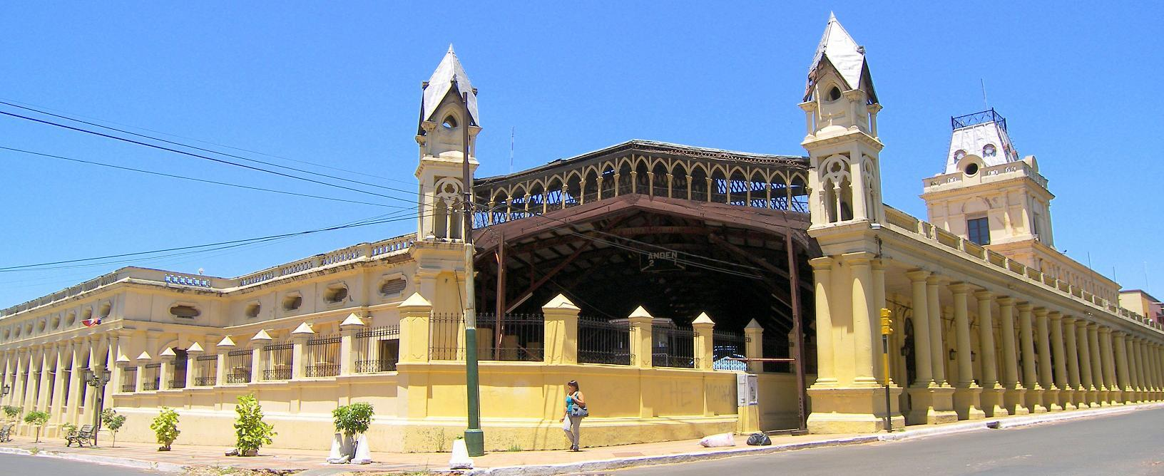 Sede del Ferrocarril Central del Paraguay